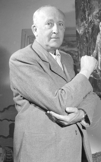 Josef Schulz (1893–1973), Austrian painter.